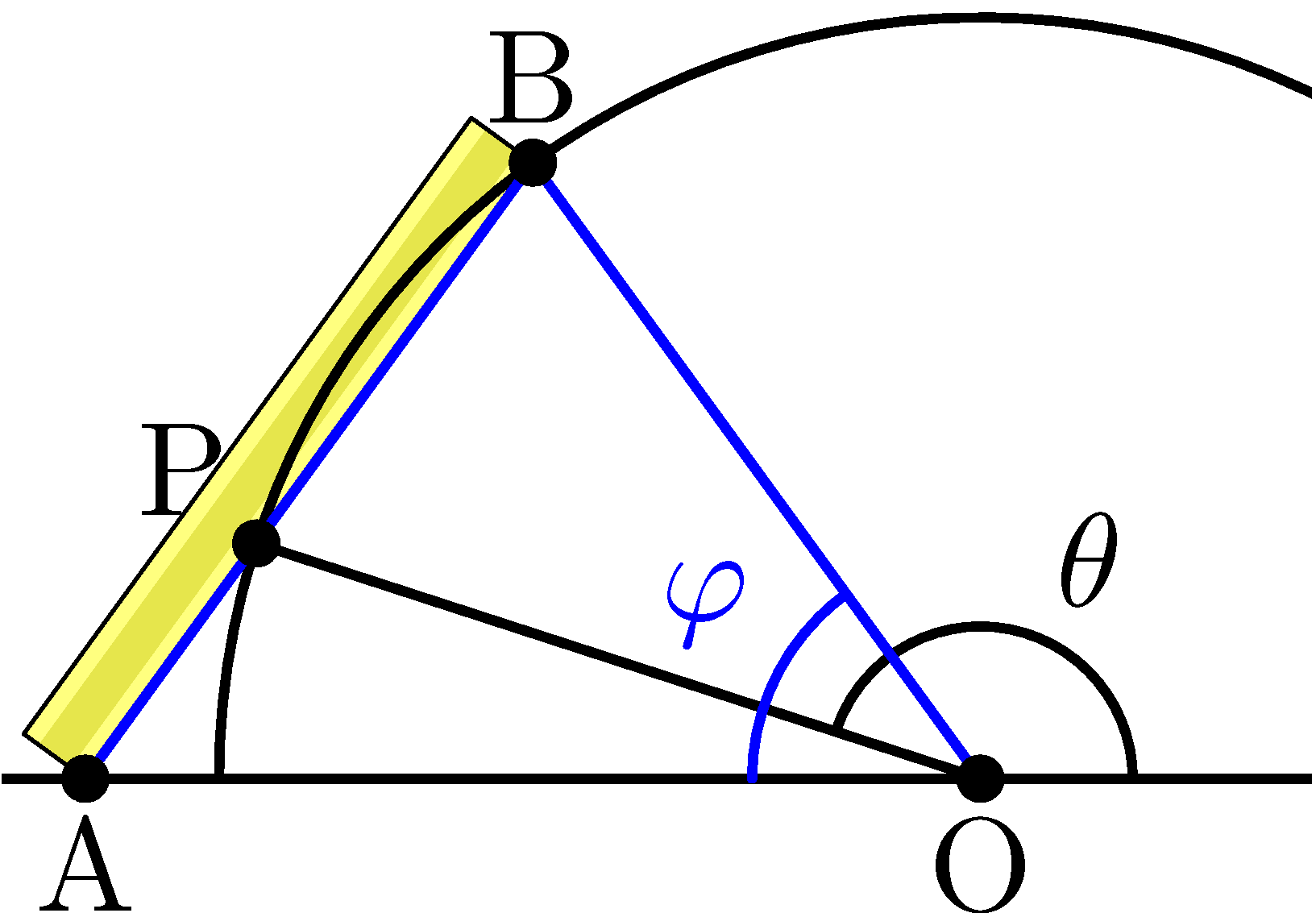 Trisection of an angle by Neusis